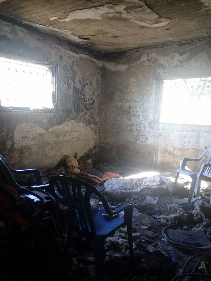 Duma arson attack